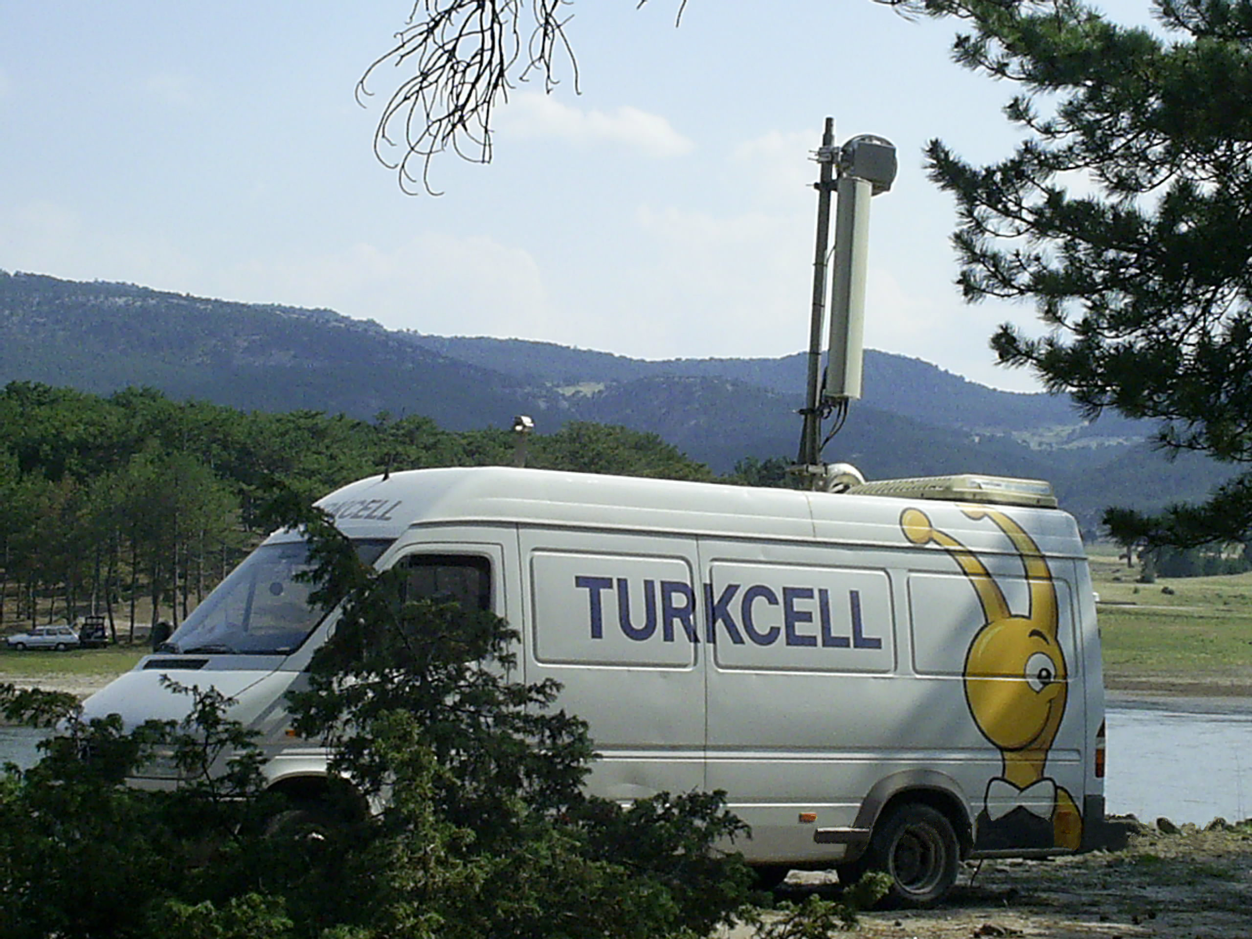 Turkcell mobile base station in Seyitgazi, Kırka